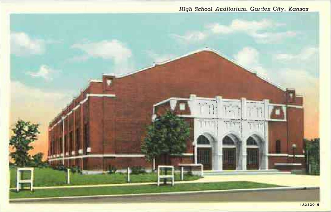 This is a postcard depicting the Garden City High School Auditorium in 1929. It was created by Curt Teich in Chicago, Illinois. He was an early pioneer of the offset printing process.